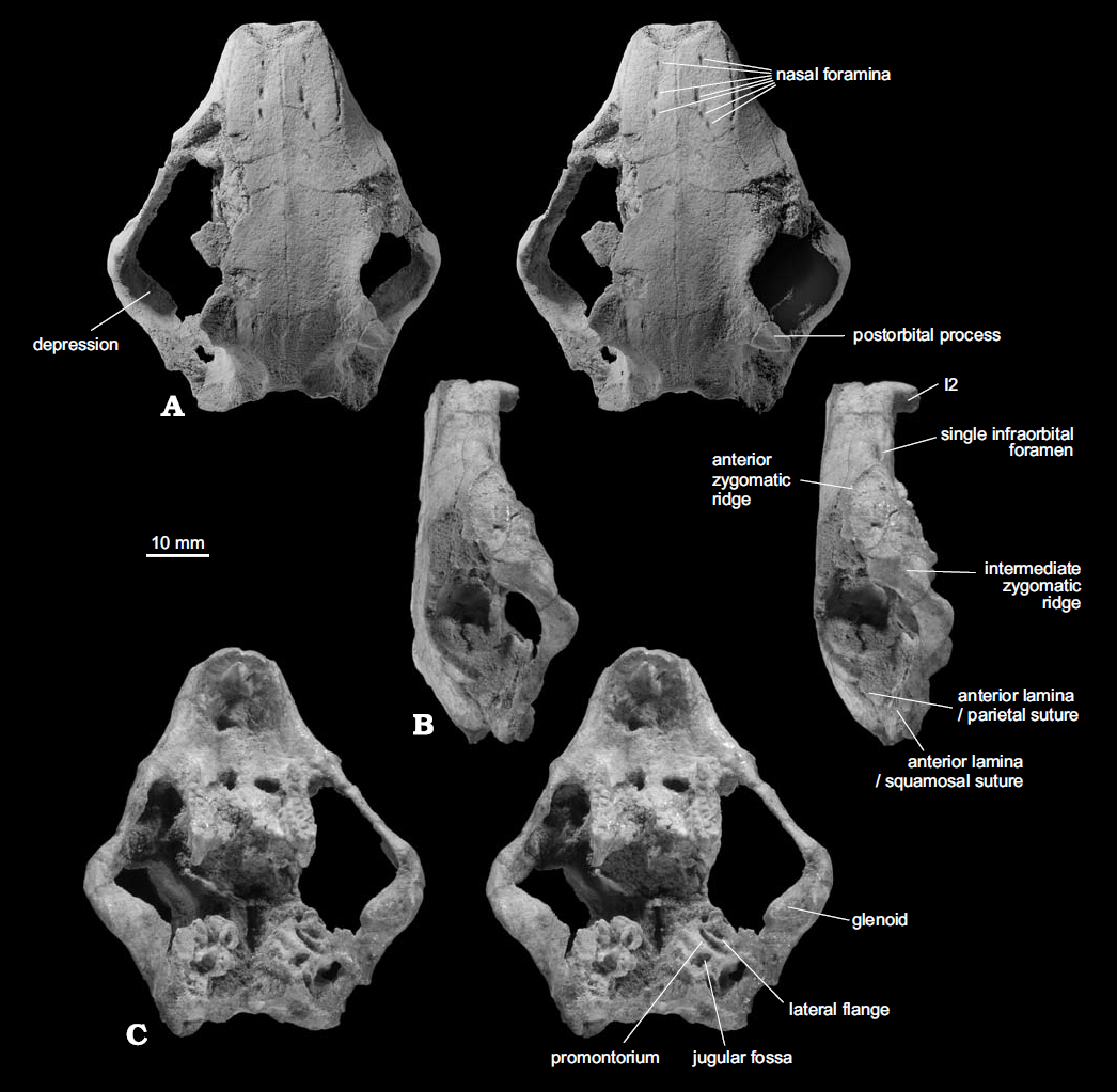 Catopsbaatar catopsaloides, PM 120/107, Hermiin Tsav I, Gobi Desert, Mongolia, ?upper Campanian, stereo−photographs of the skull of an adult individual, with missing choanal and damaged basicranial regions, in dorsal (A), right lateral (B), and ventral (C) views. InA on the left side of the specimen a depression is seen medially, at the posterior part of zygomatic arch. In comparison with Ptilodus, Nemegtbaatar, and Kryptobaatar, it is situated too far posteriorly to house the jugal bone (not preserved). The premaxillary ridge is seen in C; the P1 and P3, present in juvenile individuals (best seen in Figs. 4E and 10A) have been resorbed. In B the suture between the maxilla and squamosal is discernible along the posterior margin of the anterior zygomatic ridge.